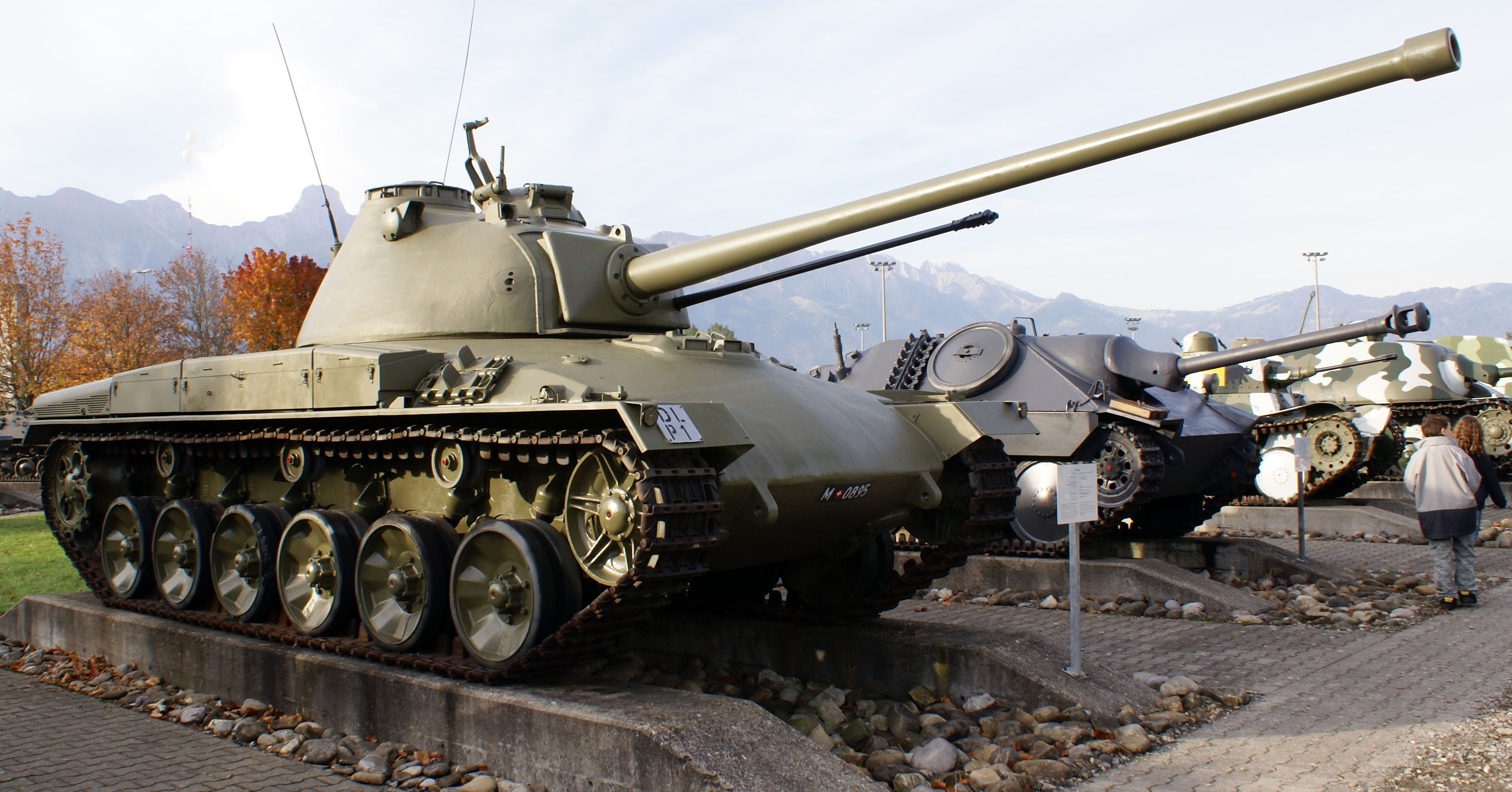 Swiss Army. Main battle tank 58. Tank Museum Thun.